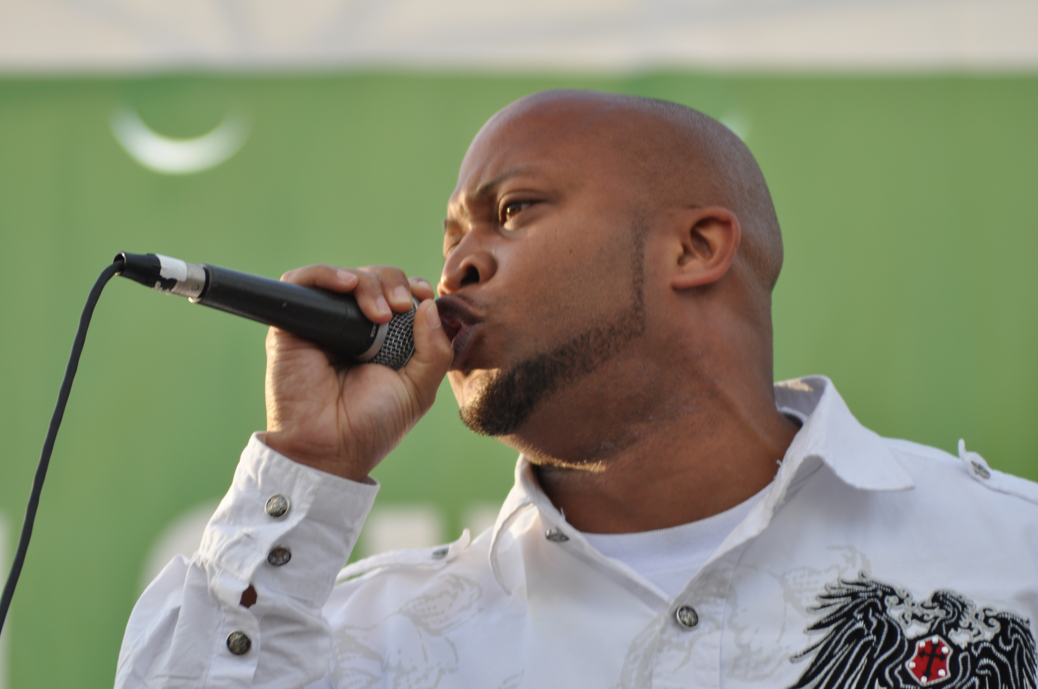 Skee-Lo performing at Seattle Hempfest 2010, Myrtle Edwards Park, Seattle, Washington.